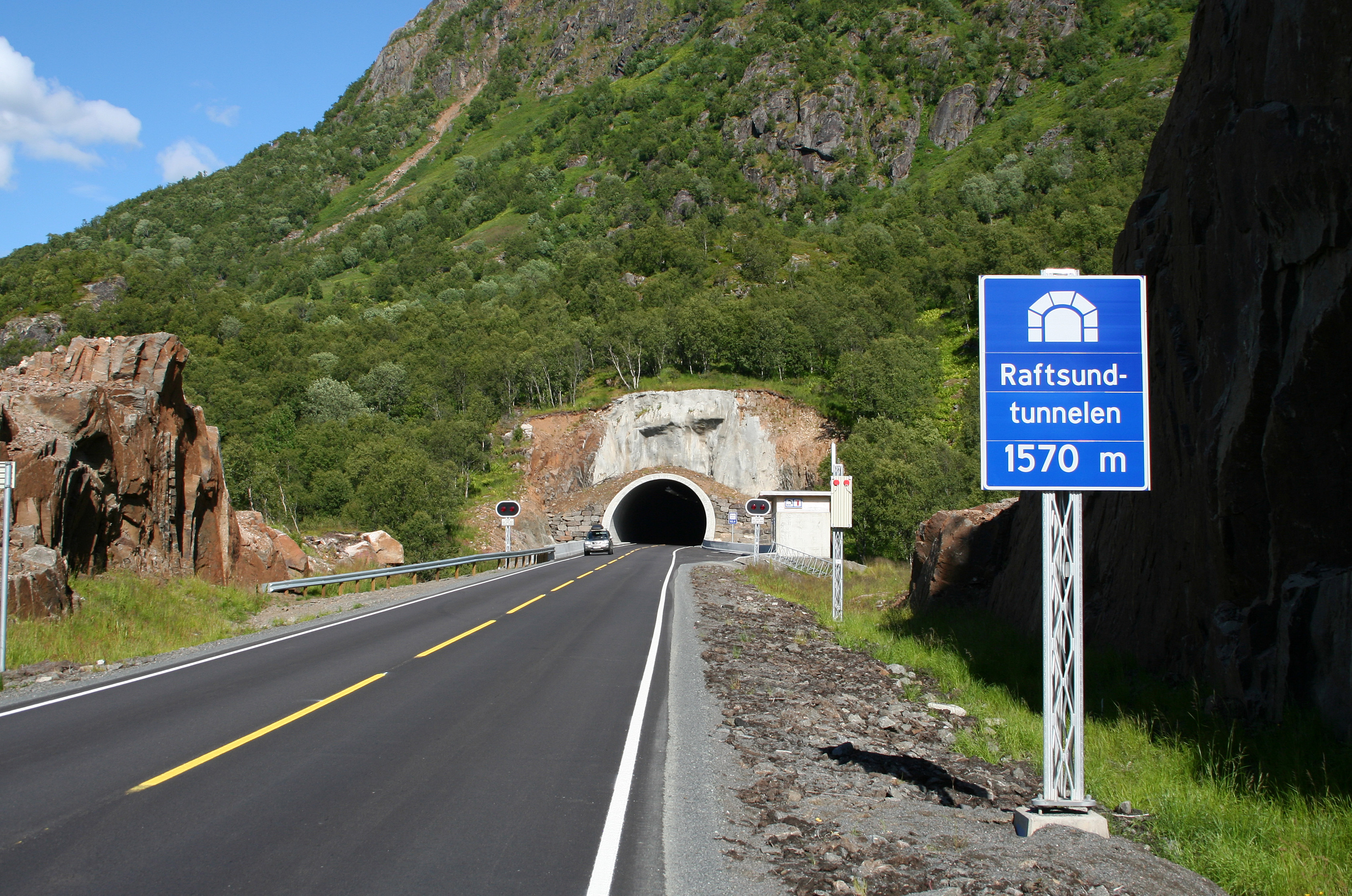 The west portal of Raftsund Tunnel in Hadsel, Norway. The road was opened on 1 December 2007.